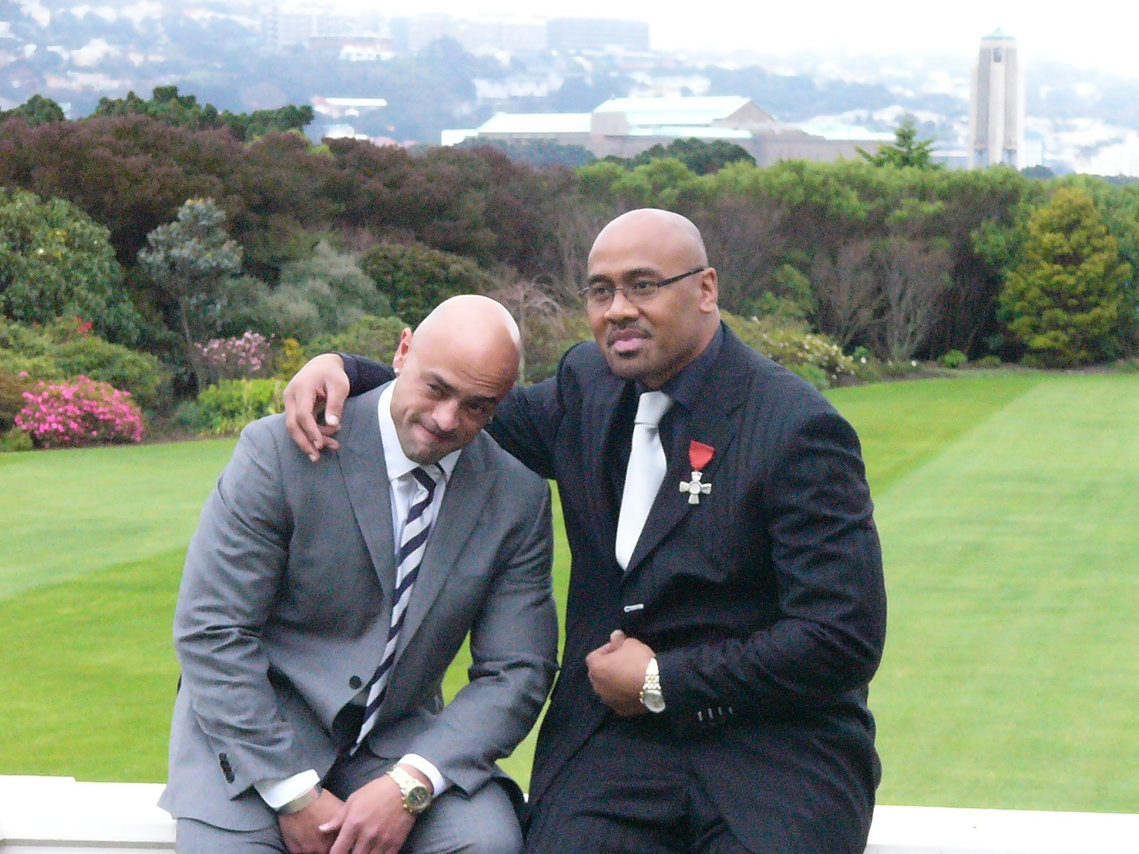 Johnah Lomu (right), after his investiture as MNZM, for services to rugby, at Government House, Wellington, on 28 August 2007, with Grant Kereama.